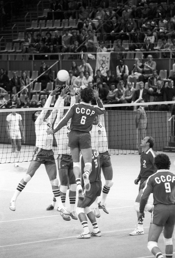 “Volleyball competition at Olympic Games-80”. XXII Summer Olympics (July 19 - August 3, 1980). Volleyball match between national teams of the USSR and Czechoslovak SSR at the Minor Arena of the Central Lenin Stadium.